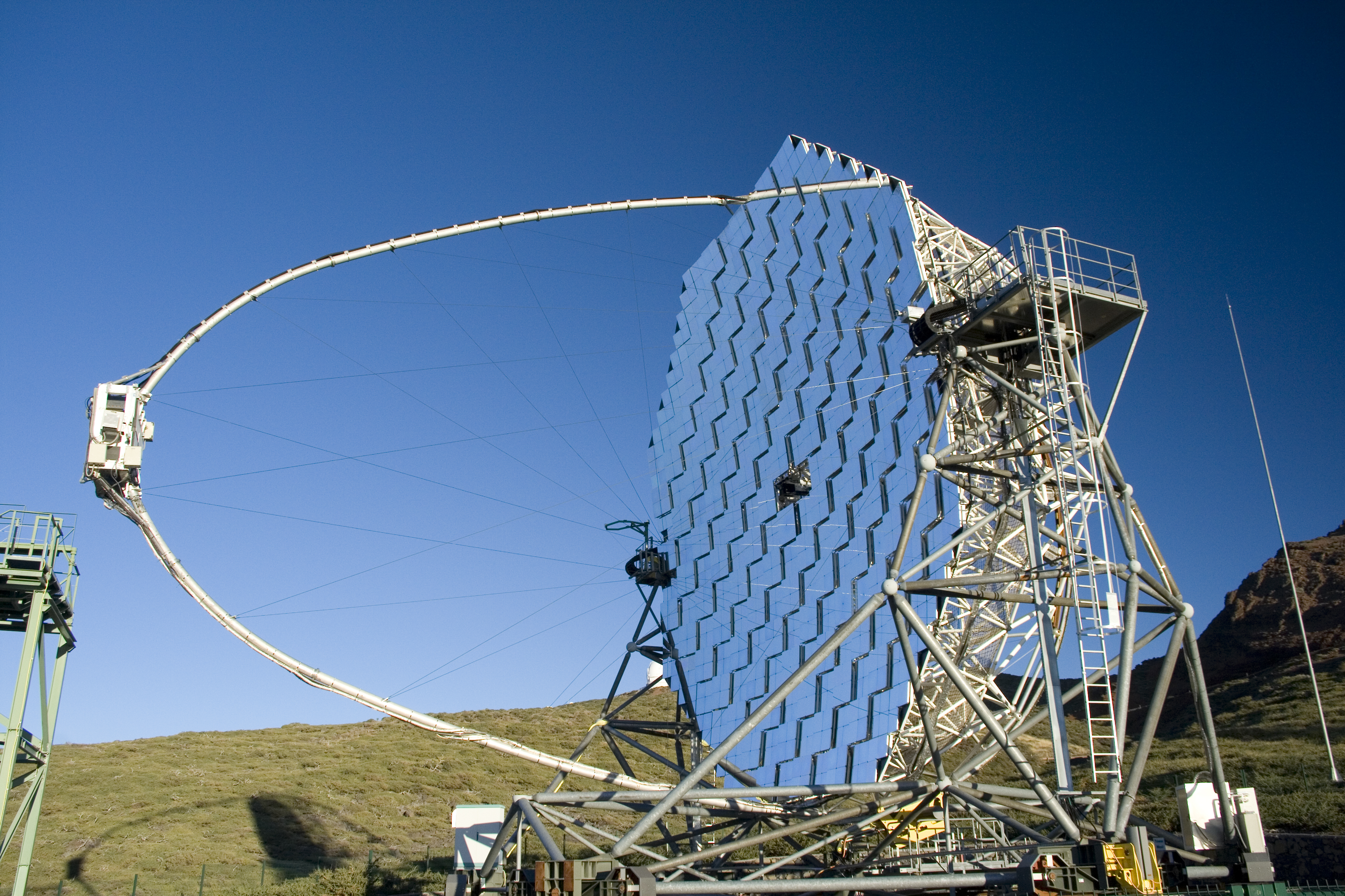 MAGIC Telescope, La Palma, Canary Islands